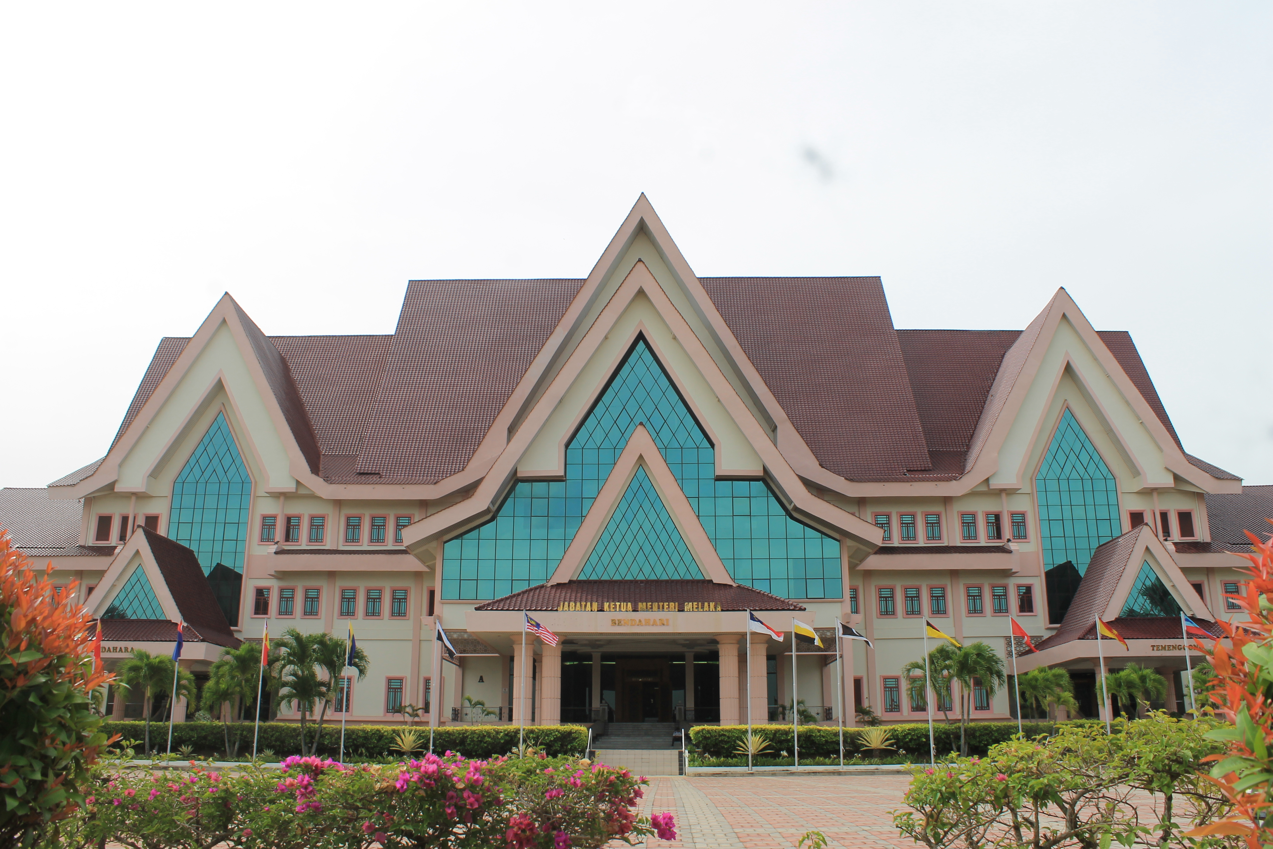 The main building inside the Seri Negeri Complex. It consists of three blocks namely Bendahara, Bendahari, and Temenggong. The chief minister office is housed in the Bendahara block.